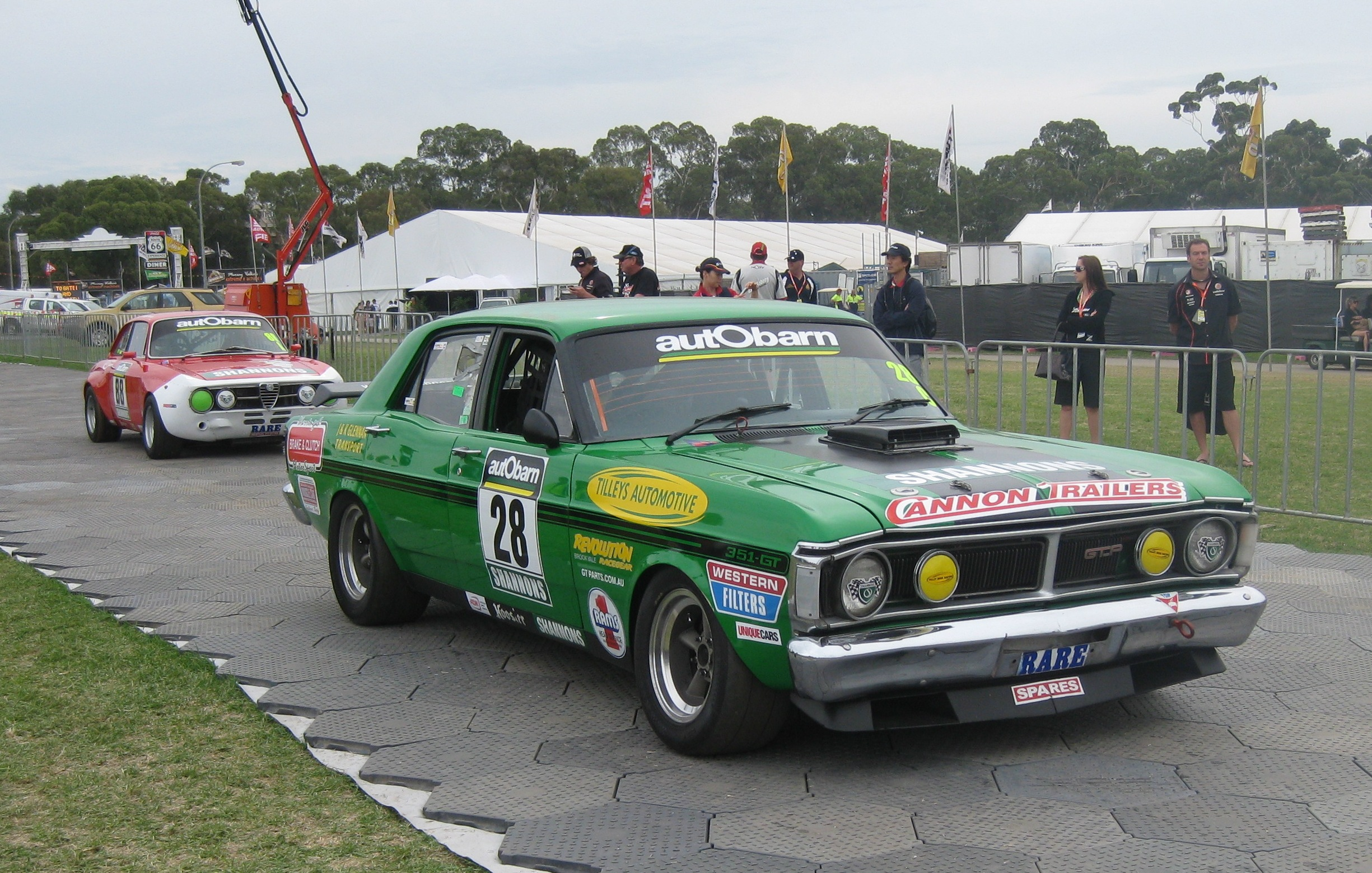 The Ford XY Falcon GTHO of Brad Tilley at the Adelaide Parklands Circuit for the opening round of the 2011 Touring Car Masters